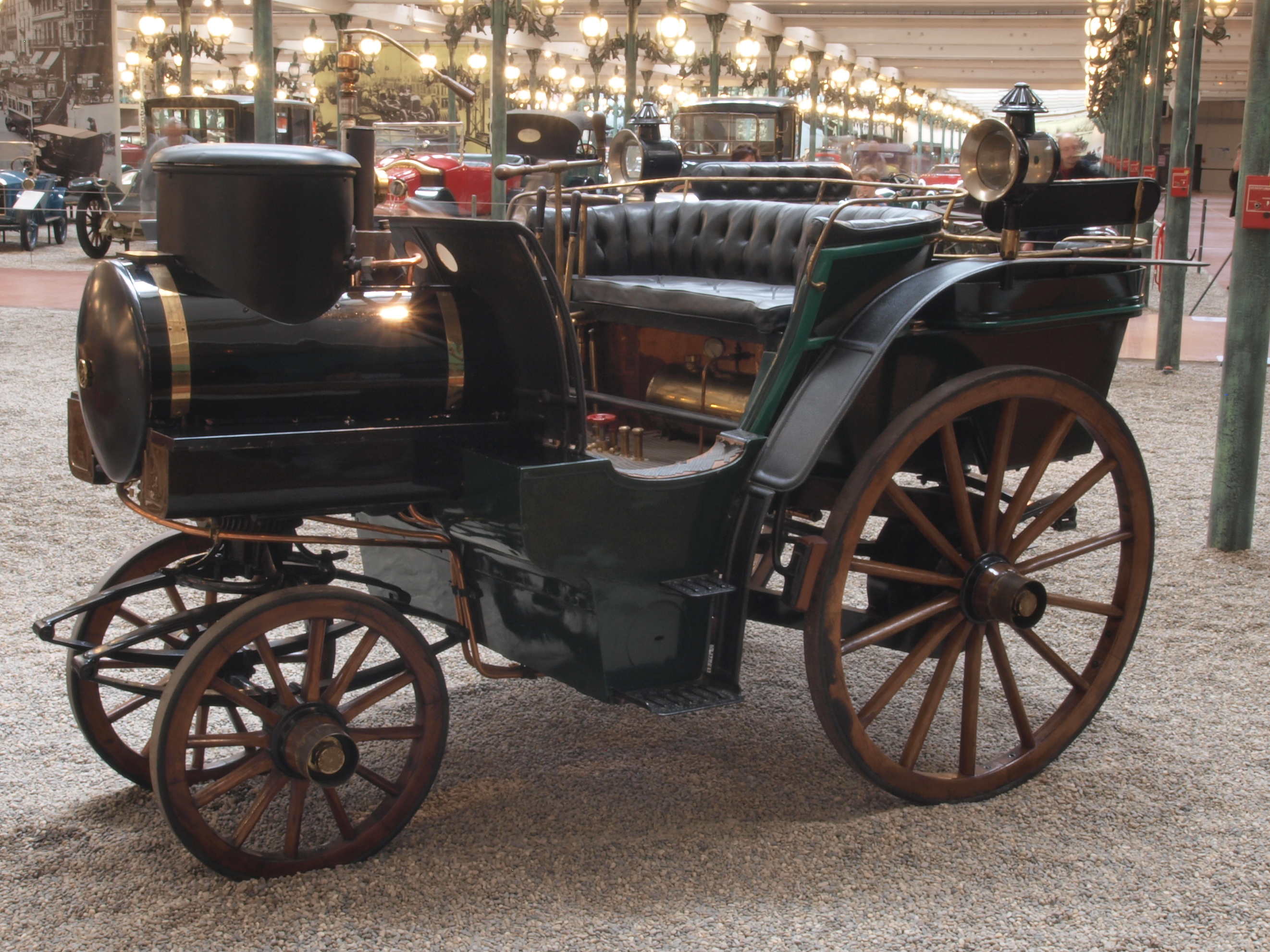 Photographed at the Cité de l’Automobile, France. OLYMPUS DIGITAL CAMERA